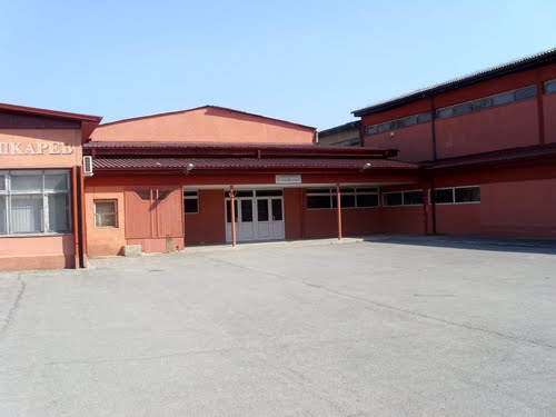 The Main entrance of KS Priamry School in Dracevo Macedonia on last day of school